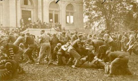 The 1911 "Color Rush" at Washington & Jefferson College.